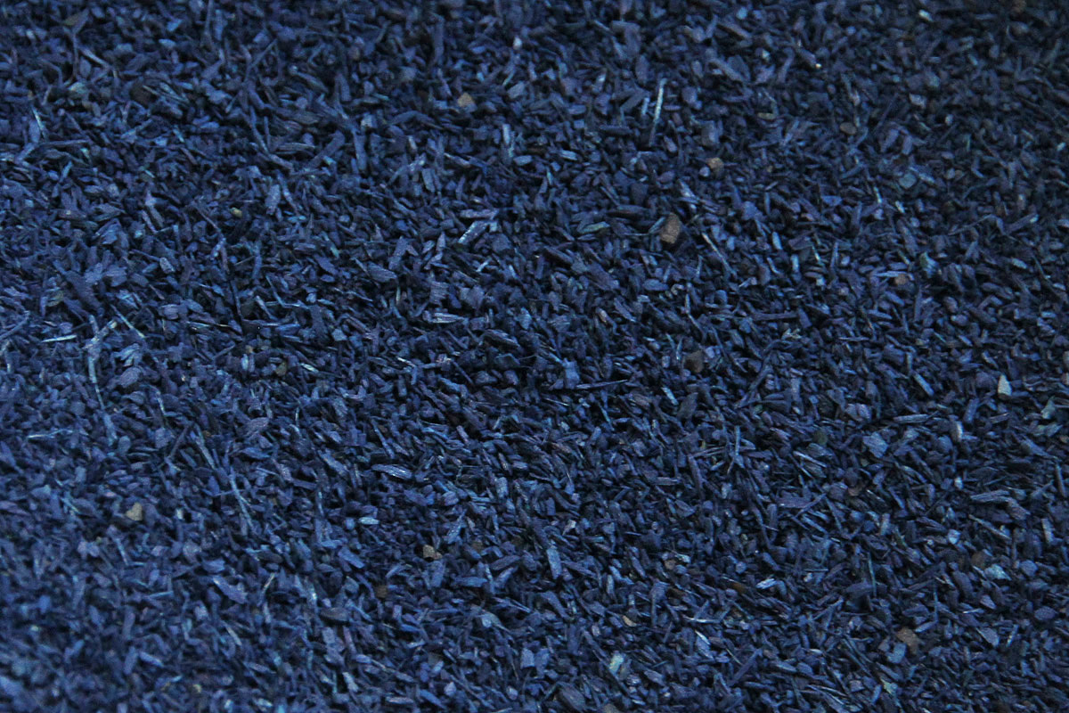 Bifege